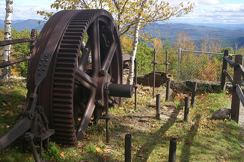 Gearing and remnants of late-19th-century cable railway (incline) which provided transportation from Lake George Village to the summit of Prospect Mountain.